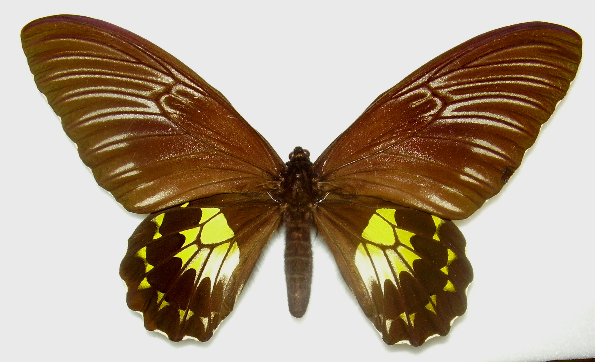 Troides vandepolli w. Sumatra, 6000 feet March 1977